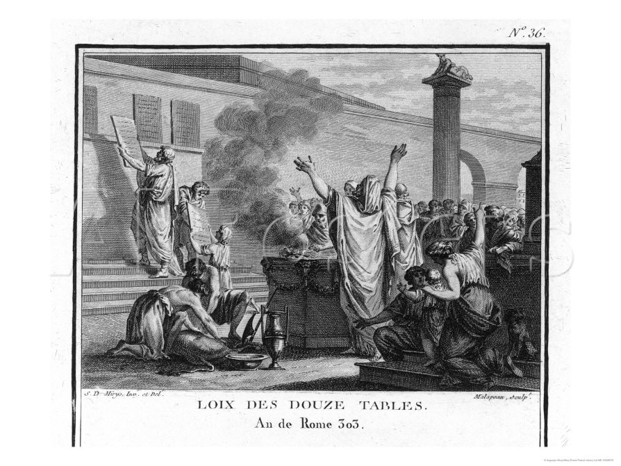 The Twelve Tables Rome's First Legal Code is Drawn up by a Commission Number 36 in Figures de l'histoire de la république romaine accompagnées d'un précis historique, Paris, an VIII. [1]